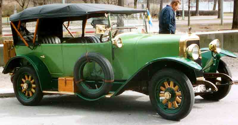 Panhard & Levassor X31 1921. This is one of the last Panhards built with a conventional engine (rather than the valveless Knight engine), with the 2275cc SU4D2 12CV (fiscal) engine.